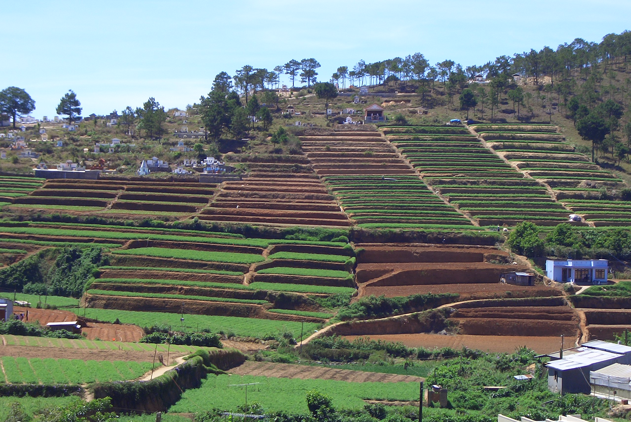 Vegetable-terraces and cemetery of Da Lat, Vietnam